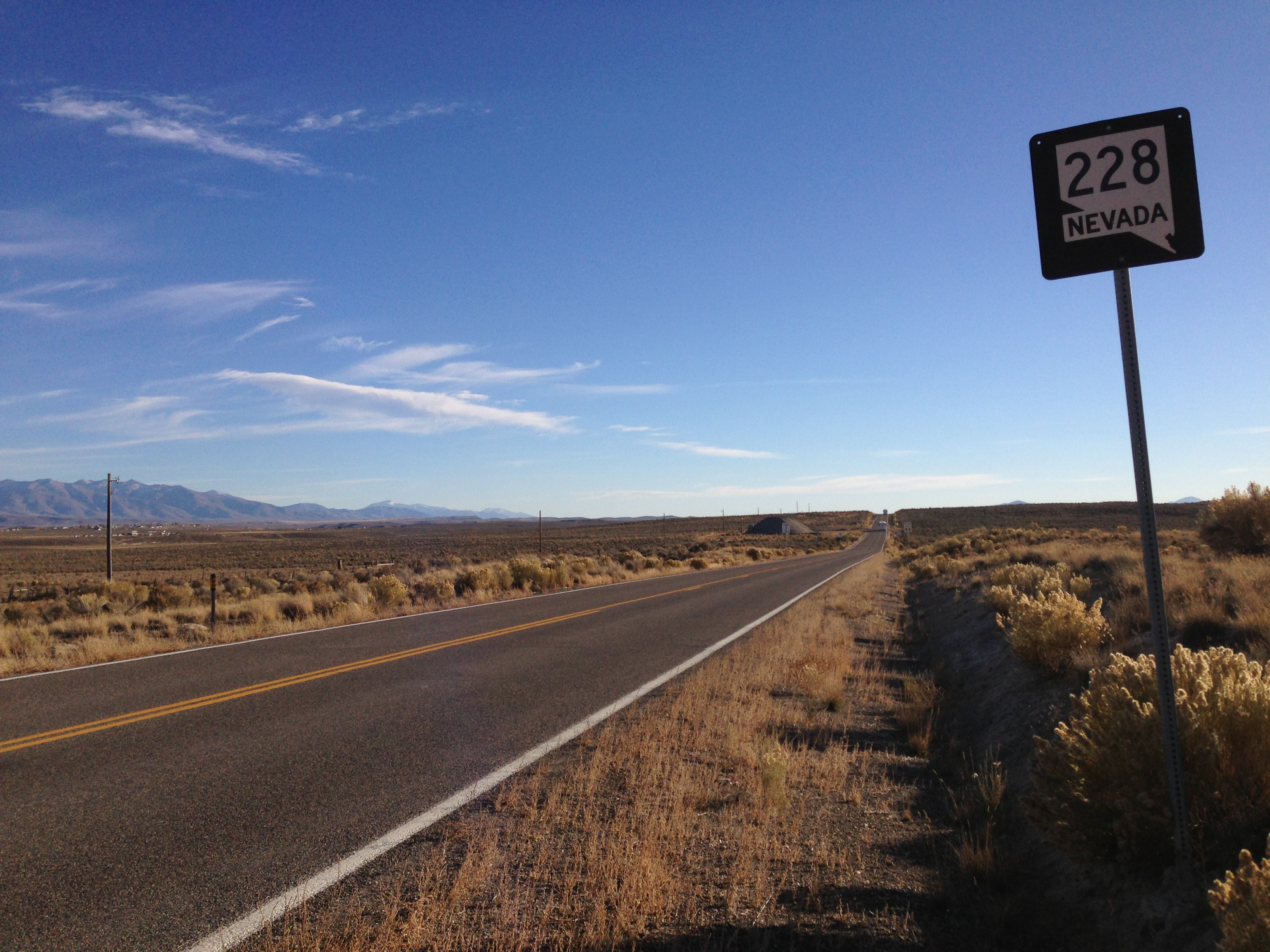 View south just south of the north end of Nevada State Route 228 where it intersects Nevada State Route 227